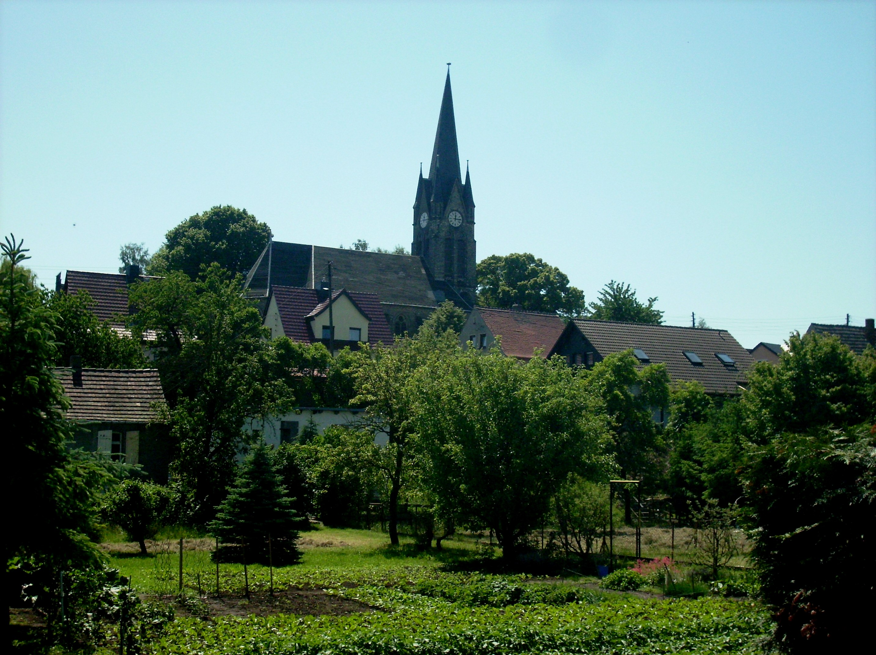 Granschütz (Hohenmölsen, district of Burgenlandkreis, Saxony-Anhalt) with church